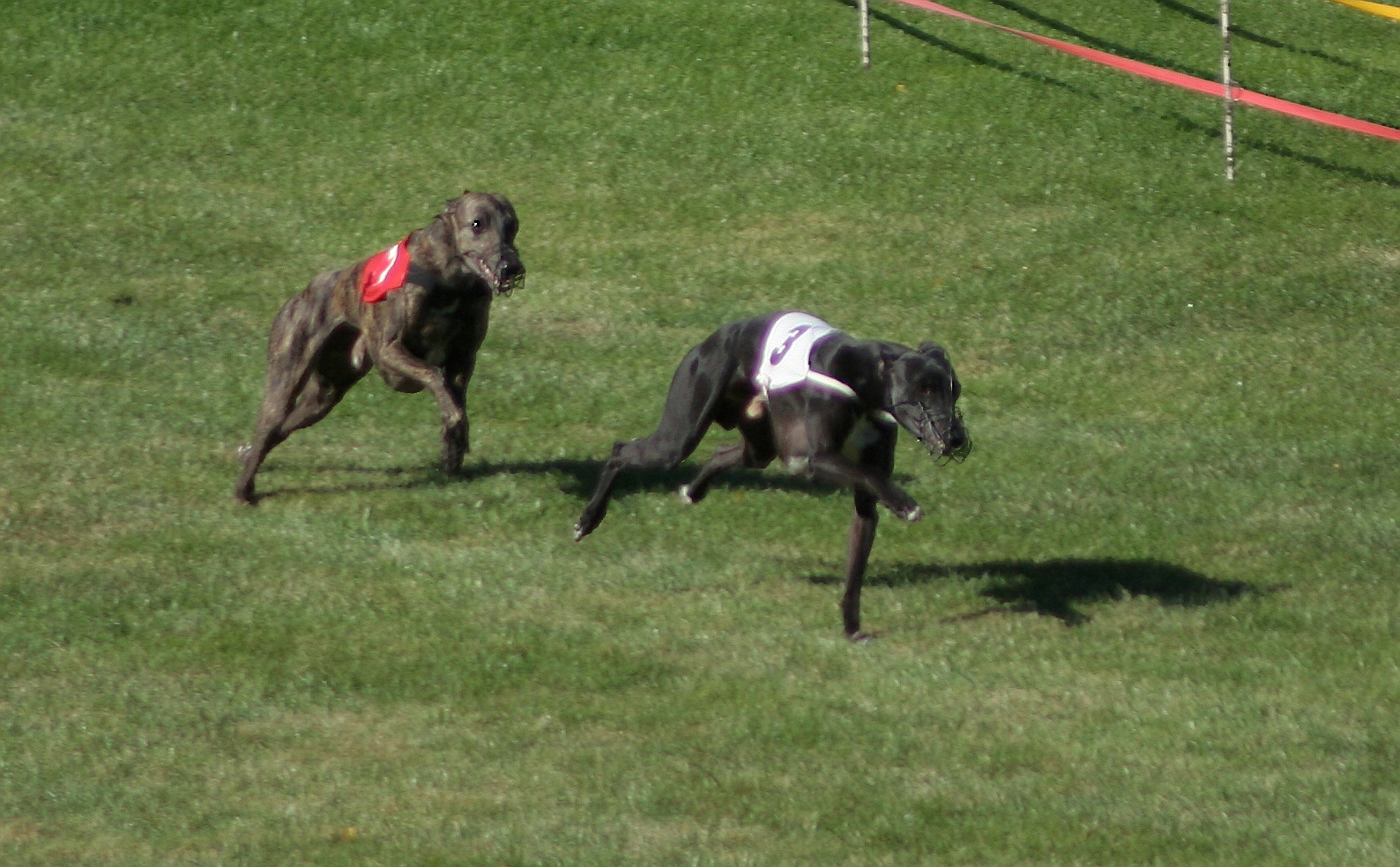 Whippets during the dog's racing in Bytom - Szombierki, Poland.